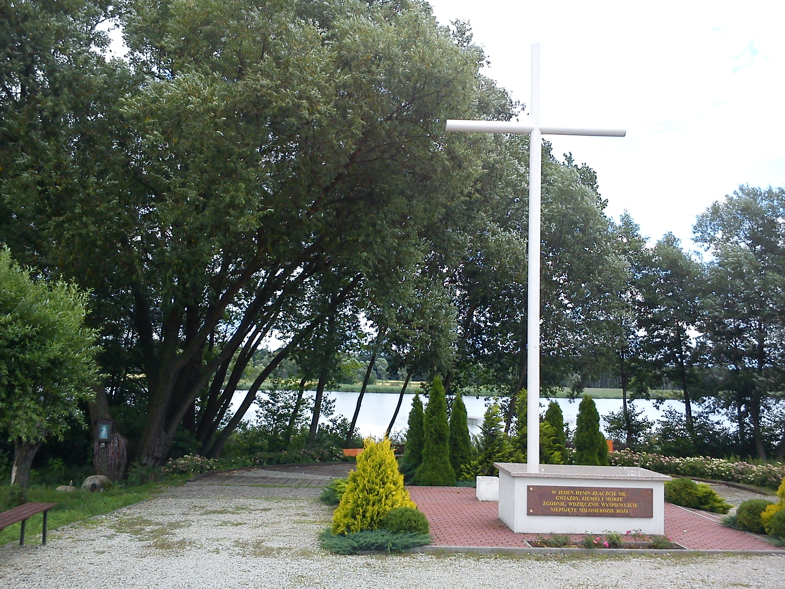 Faustyna Kowalska Way in Kiekrz.